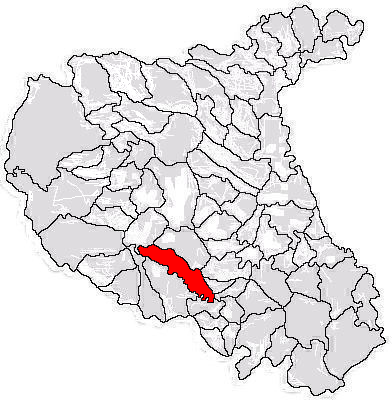 Map with limits of commune